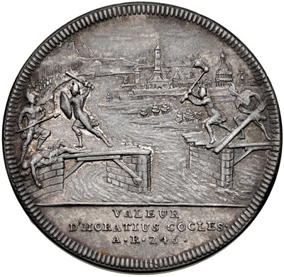 SWITZERLAND. Horatius Cocles at the Pons Sublicius / Mucius Scaevola Before Porsenna. AR Medal (32mm, 10.58 g, 12h). By Jean Dassier & sons, 1740-1750. Horatius Cocles at the Pons Sublicius: Horatius battling with soldiers of the Tuscan king, Porsenna, upon the ruined bridge over the Tiber; to right, two enemy soldiers attempt to ford the river; dated year 246 (508 BC) in exergue